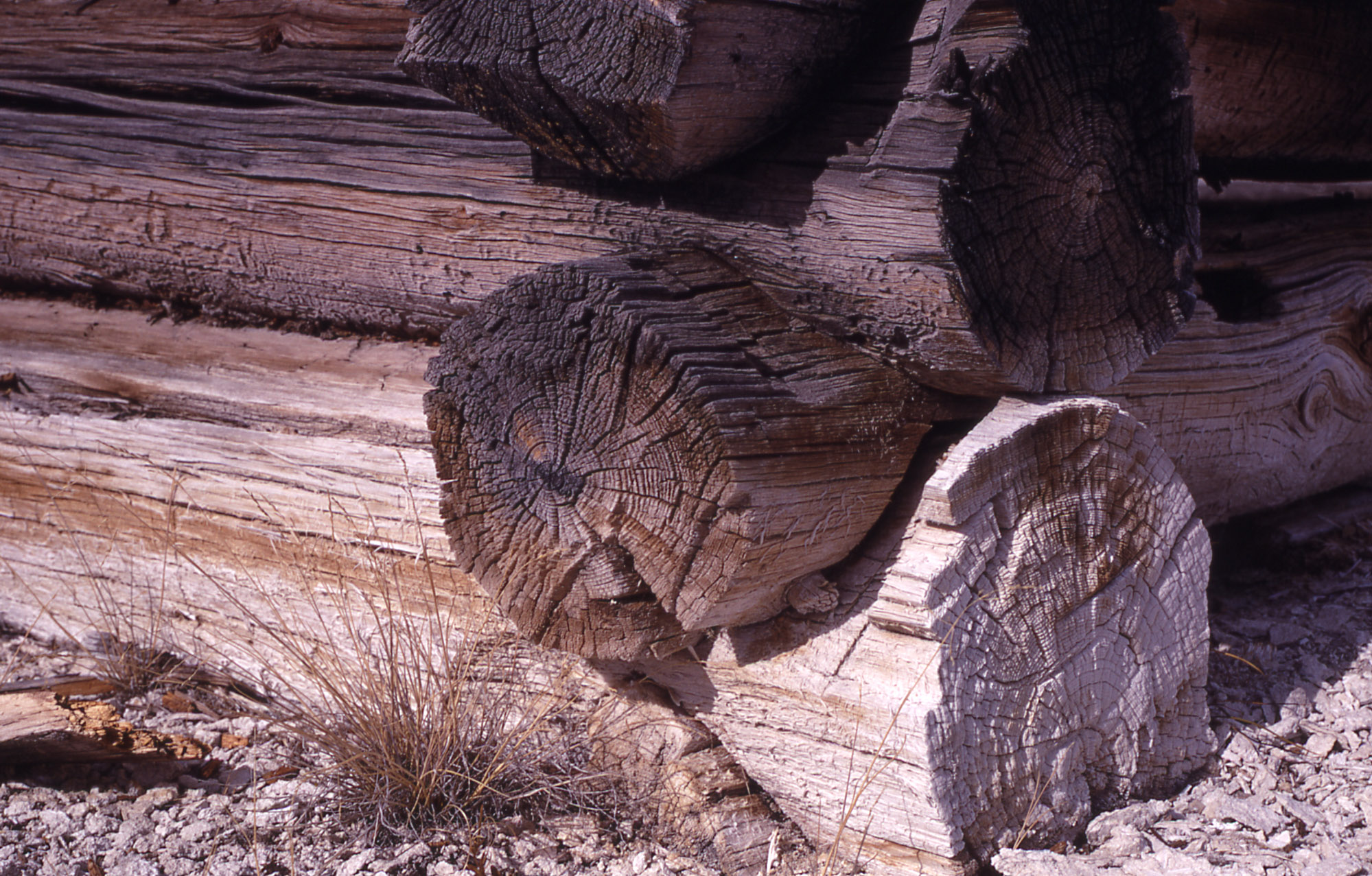 Silicified logs at the Queen's Laundry Bathhouse, Yellowstone National Park, Wyoming, USA